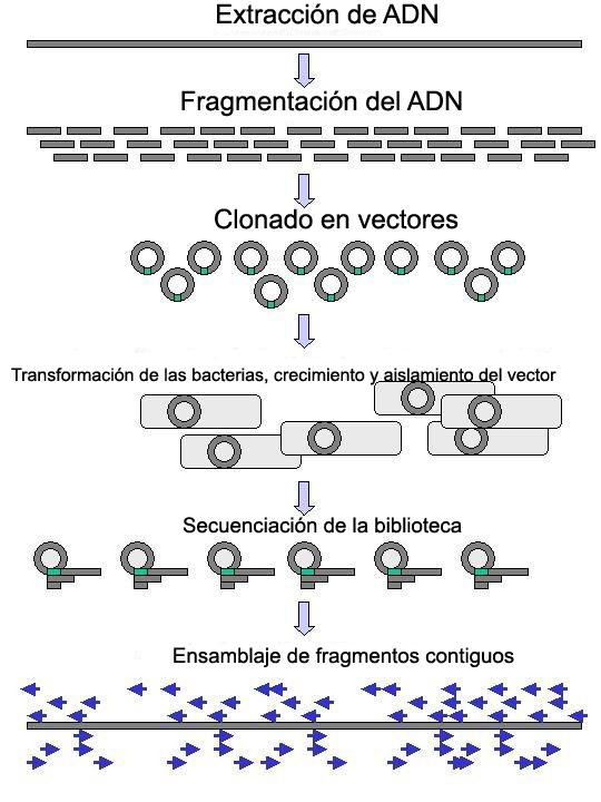 A picture on gDNA libraries sequencing process (spanish)